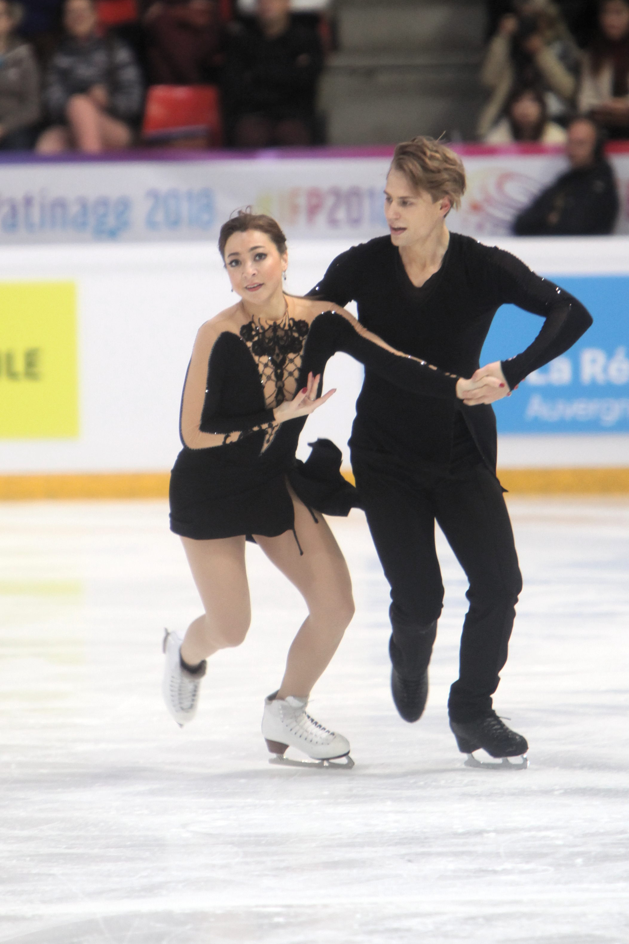 Allison Reed and Saulius Ambrulevičius during the Free Dance at the Internationaux de France de Patinage 2018.